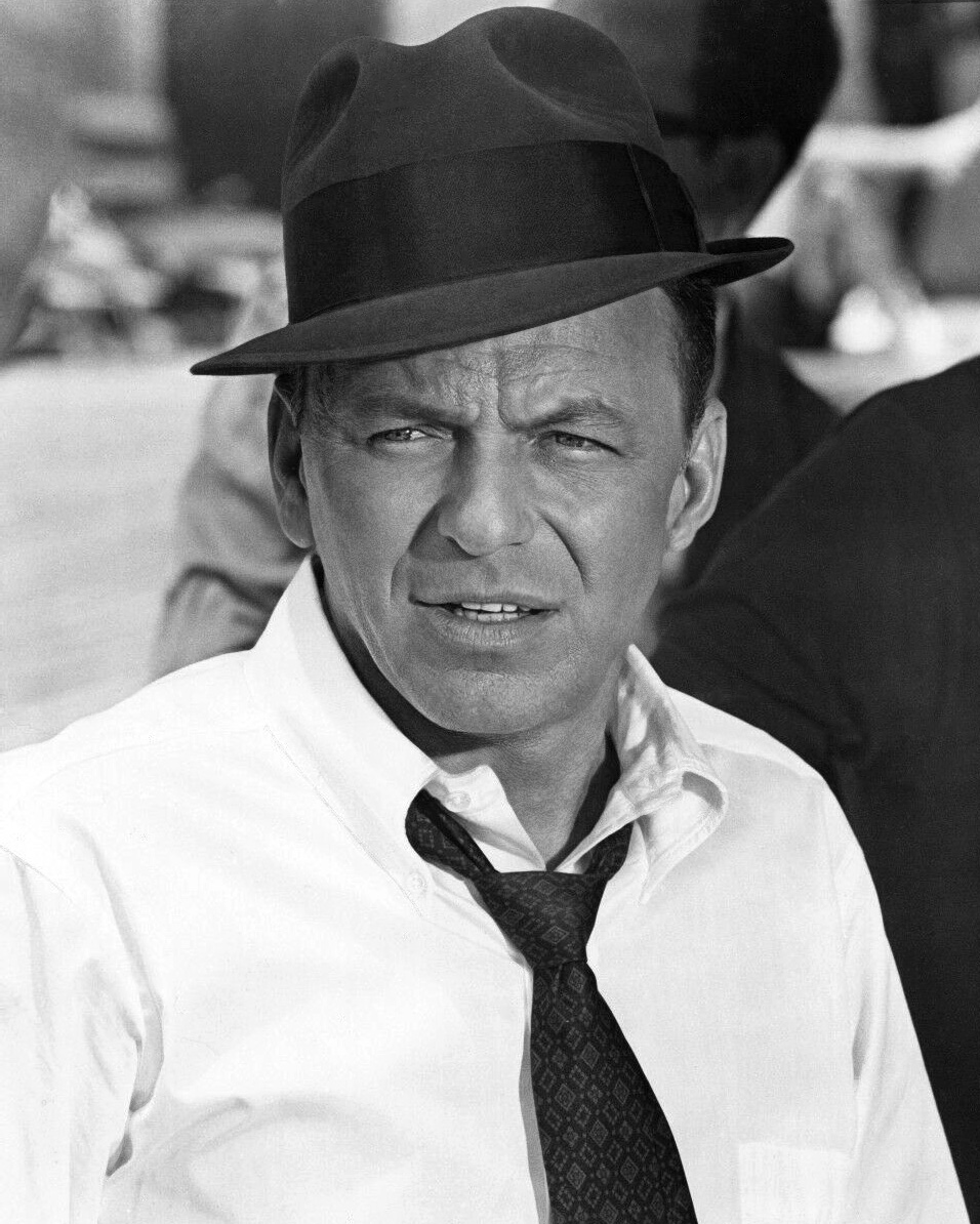 Publicity photo of Frank Sinatra as the title character in the 1967 film Tony Rome.